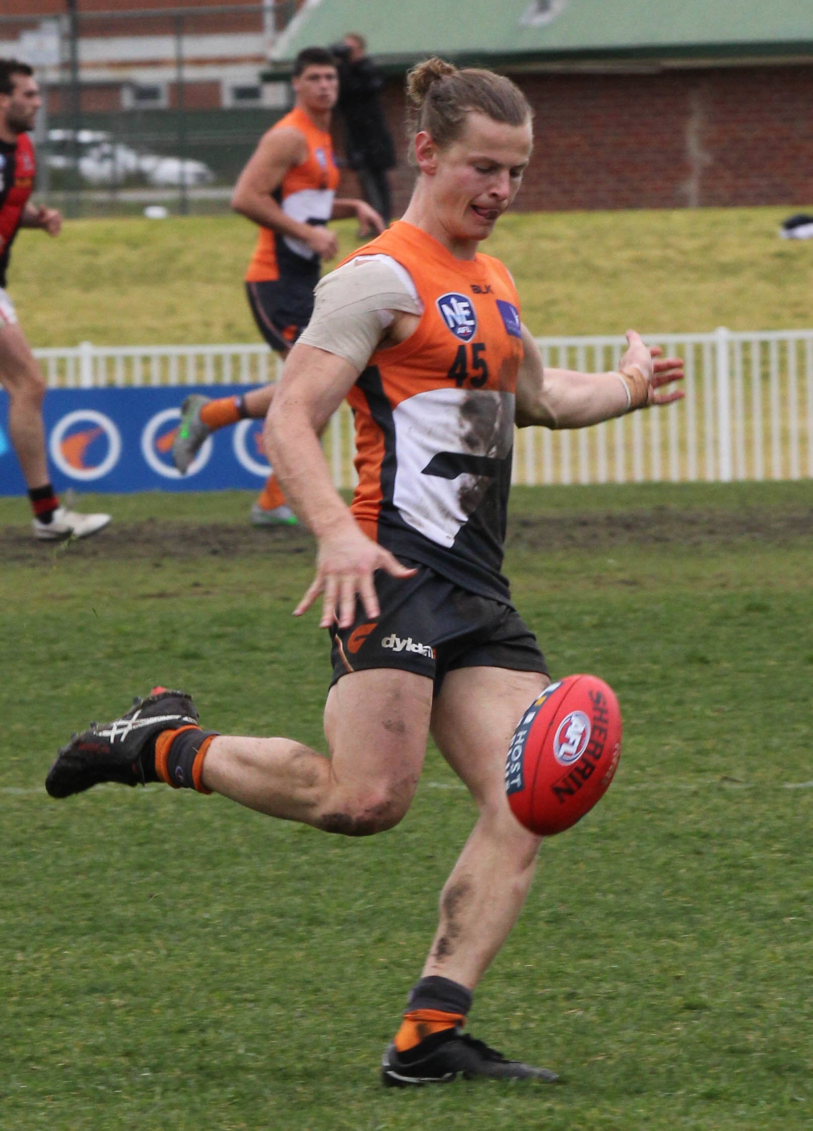 Sam Schulz about to kick during the UWS Giants vs. Eastlake NEAFL match at Robertson Oval on 1 August 2015.